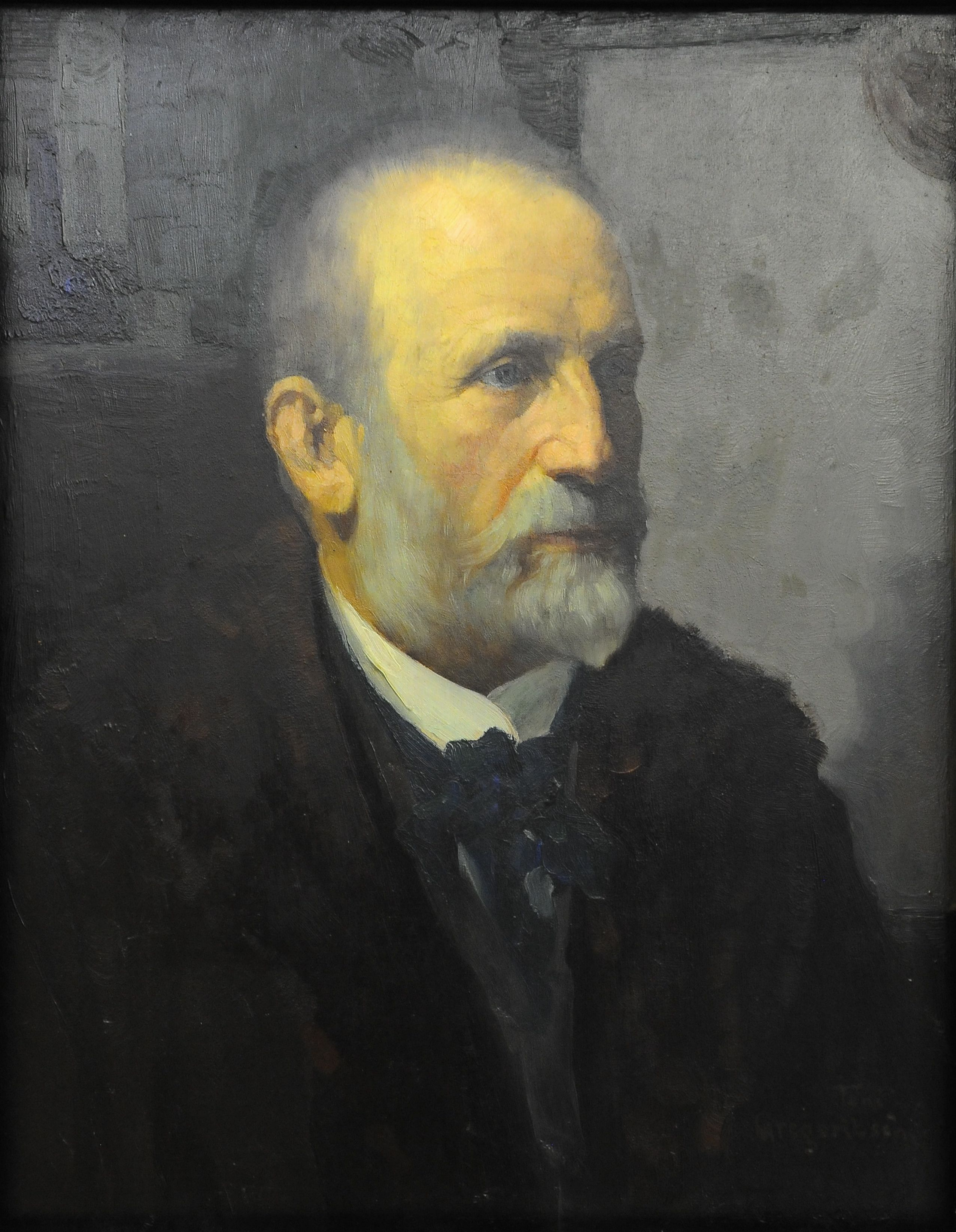 Portrait of Ludwig Willroider